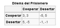 prisoner´s dilemma table